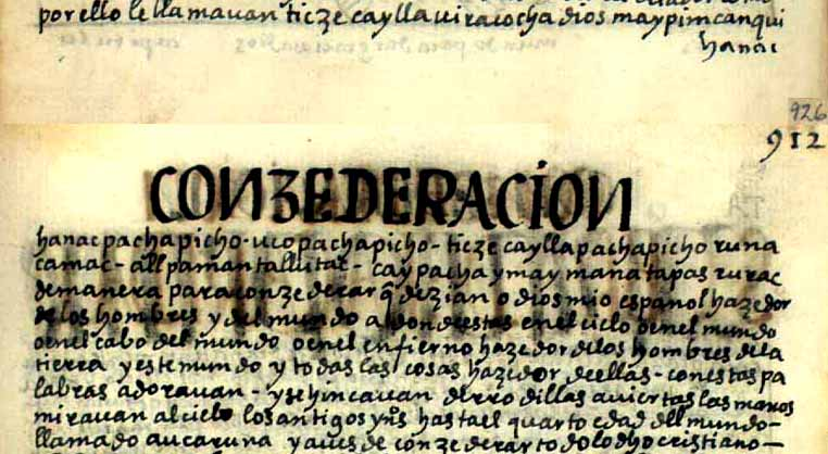 Phelipe Guaman Poma de Aiala (1615: 911f.). CONZEDERACIÓN. Ticze caylla uira cocha, dios maypim canqui? Hanac pachapicho? Uco pachapicho? Ticze caylla pachapicho? Runa camac, allpamantallutac, cay pacha ymaymanatapas rurac. (Fundamental, nearby god, where are you? In the upper world? In the lower world? In the fundamental, nearby world? Creator of man, molding him out of earth, maker of this world and anything.)